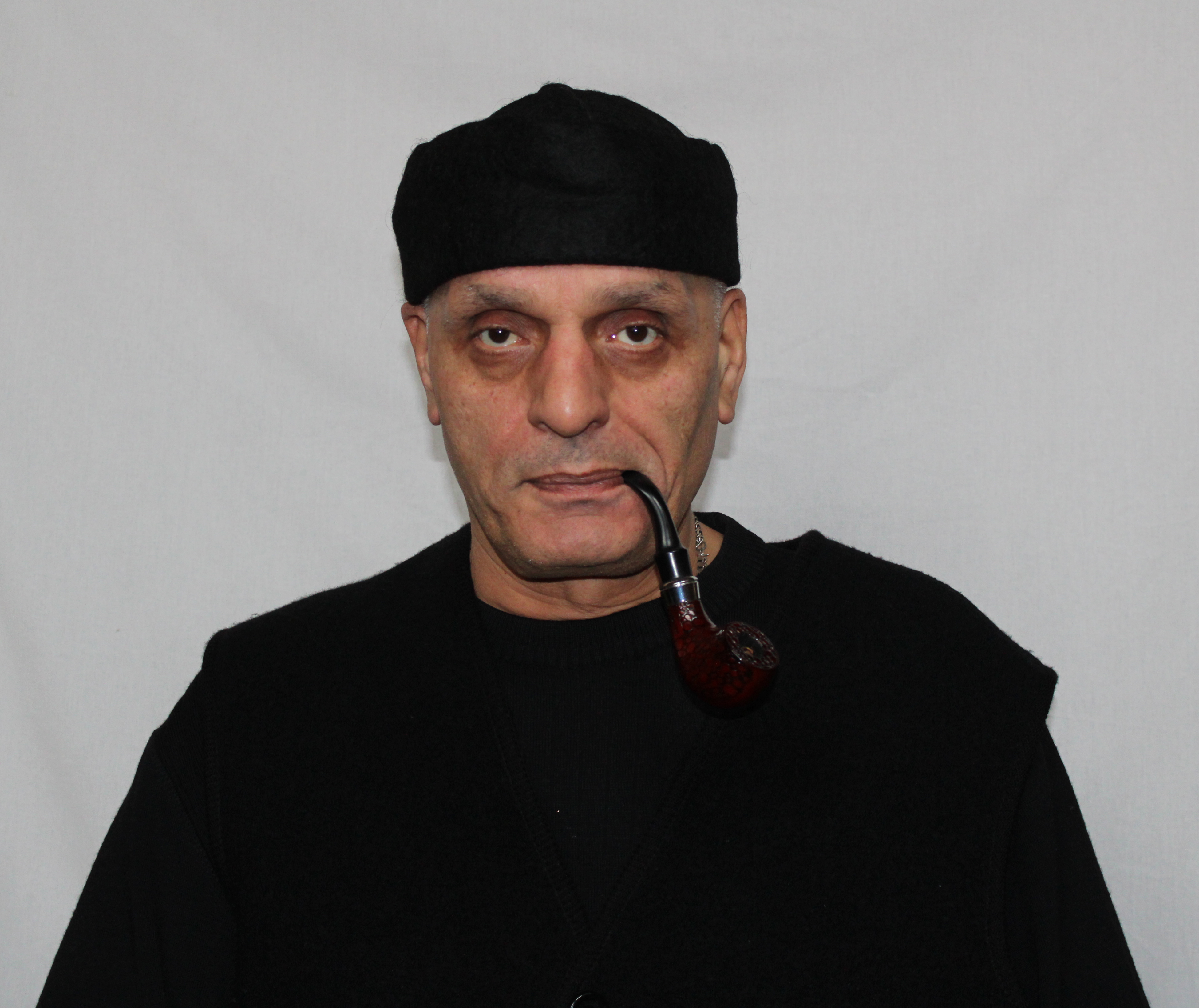 Mikho Mosulishvili, 2017